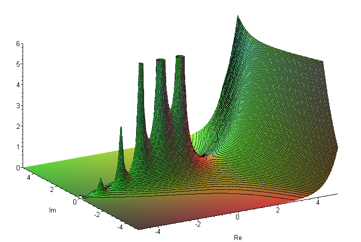 The absolute value of the Gamma function. Created with Maple: plot3d(abs(GAMMA(Re+I*Im)),Re=-5..5,Im=-5..5,view=[-5..5,-5..5,0..6],grid=[40,40],orientation=[-120,60],axes=frame,contours=120,style=PATCHCONTOUR)